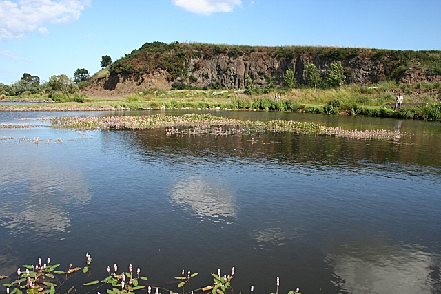 Gelly Loch. This semi-natural loch is now managed as a trout fishery.